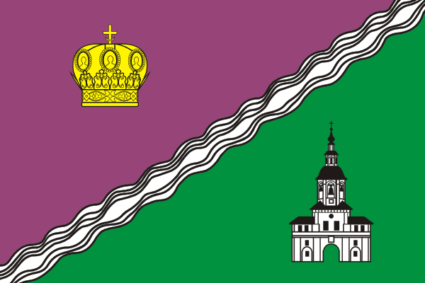 South district in Moscow, flag